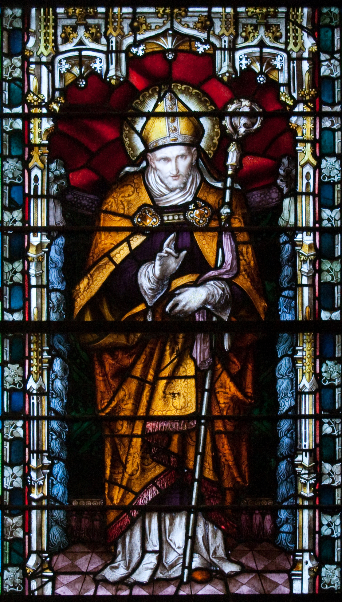 Carlow, County Carlow, Ireland Main feature of the right stained glass window in the north transept of Carlow Cathedral, showing St Alphonsus (1696–1787) who was canonized in 1839 and proclaimed a Doctor of the church in 1871. Created by Franz Mayer & Co. in the 19th century. Franz Borgias Mayer (1848–1926) Alternative names Mayer, FranzDescriptionGerman stained-glass artistDate of birth/death 1848 1926 Work location Munich Authority control : Q21000395 VIAF: 80993958 GND: 136691900 creator QS:P170,Q21000395